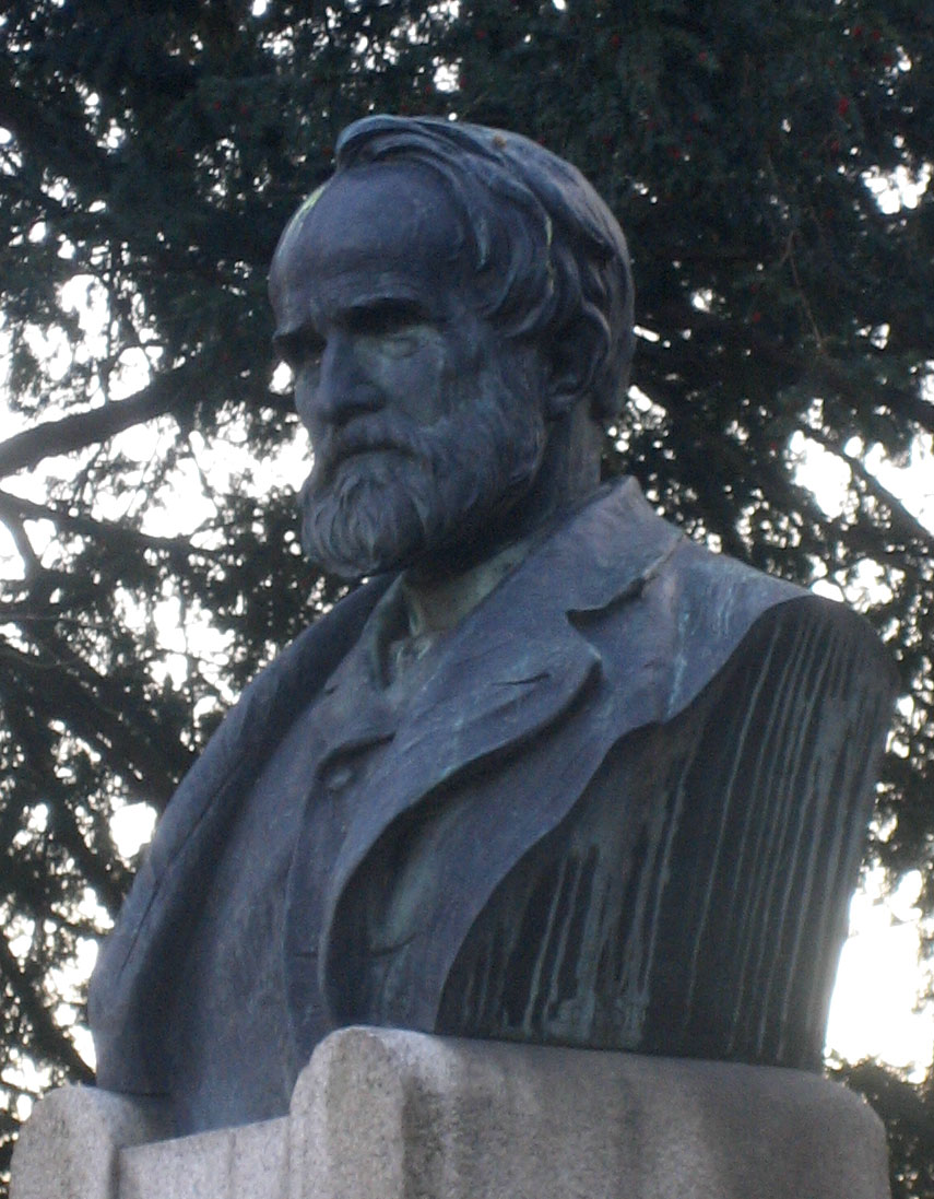 Memorial bust for Swabian poet Johann Georg Fischer in Stuttgart (sculpted by Emil Kiemlen, 1900; cast by Paul Stotz)